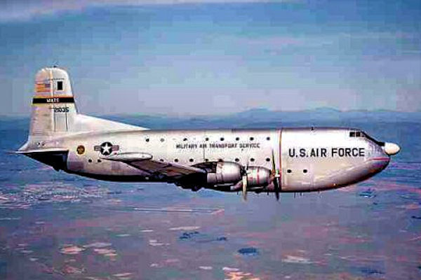 Douglas C-124C Globemaster II 53-035 in MATS liverly